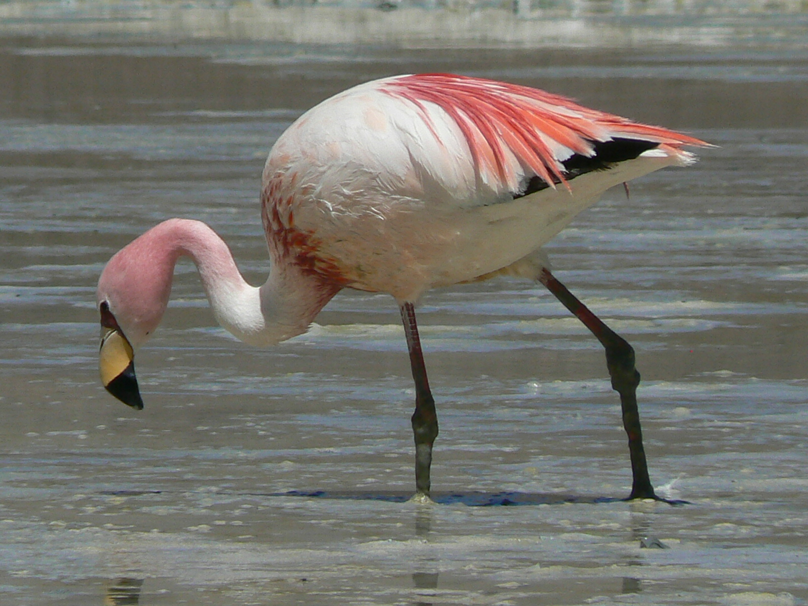 James's Flamingo (also known as the Puna Flamingo) at Laguna Cañapa, a lake in the Potosí Department, Bolivia.